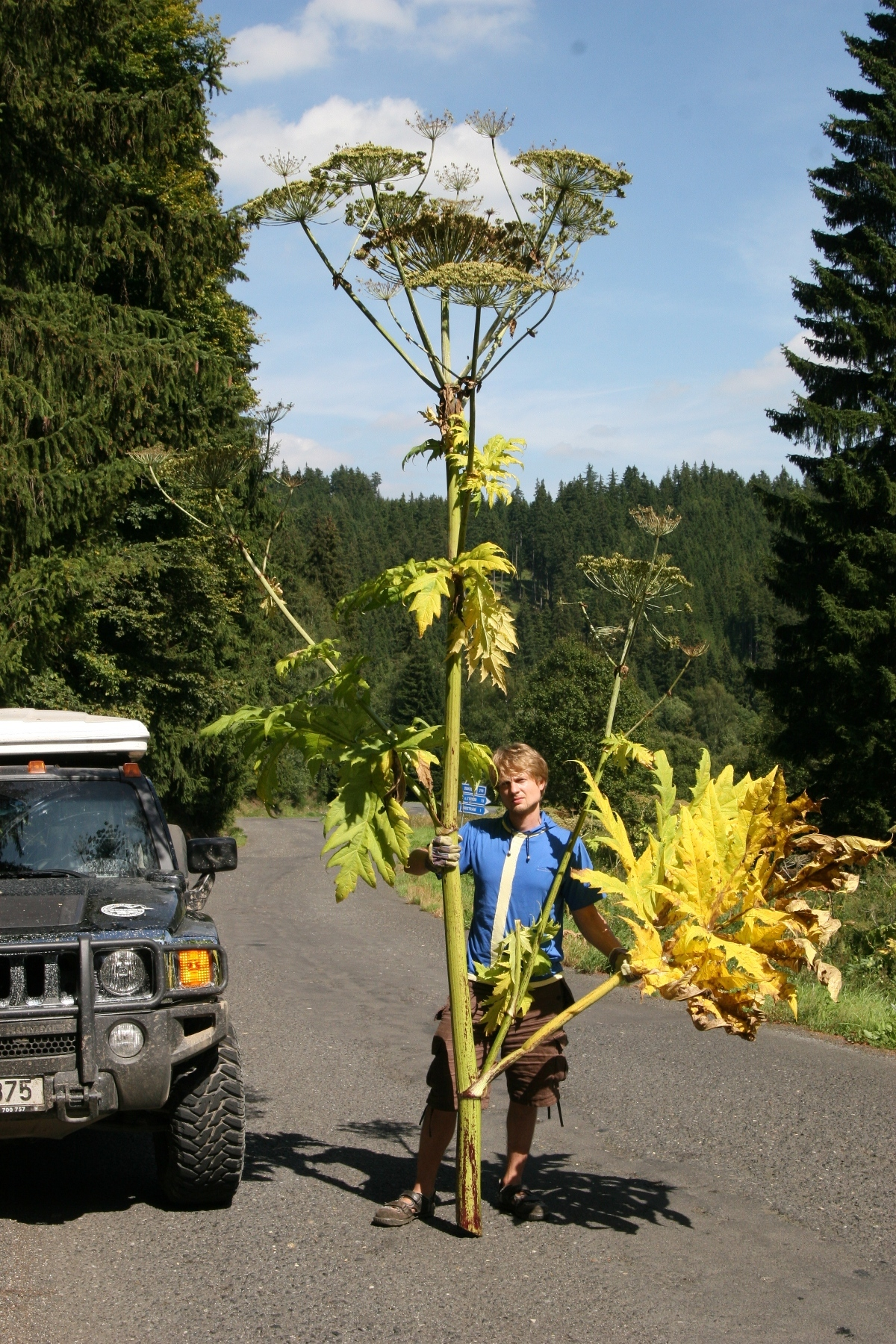 Heracleum mantegazzianum